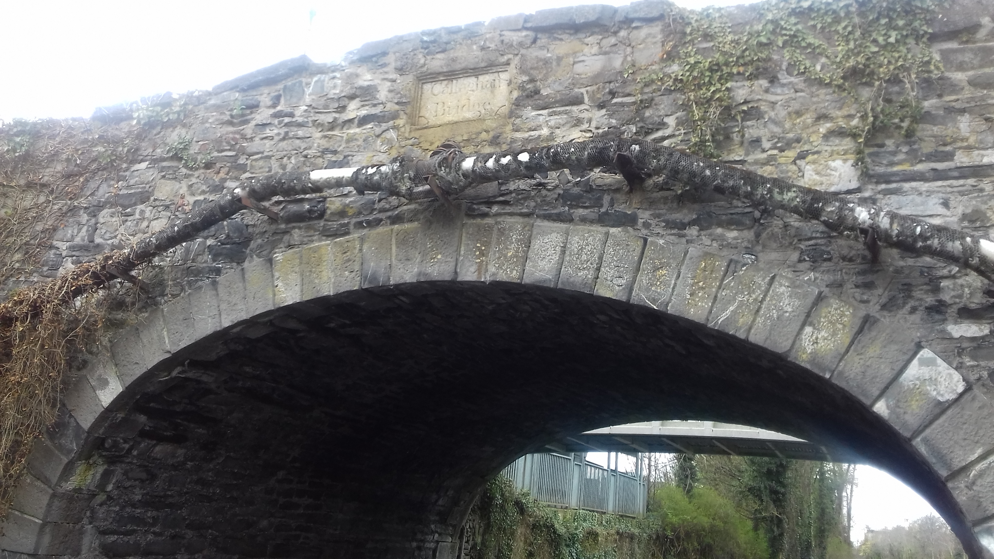 Plaque says "Callaghan Bridge" on the western facade. Located near Clonsilla railway station between the 12th and 13th locks of the Royal Canal, Dublin.